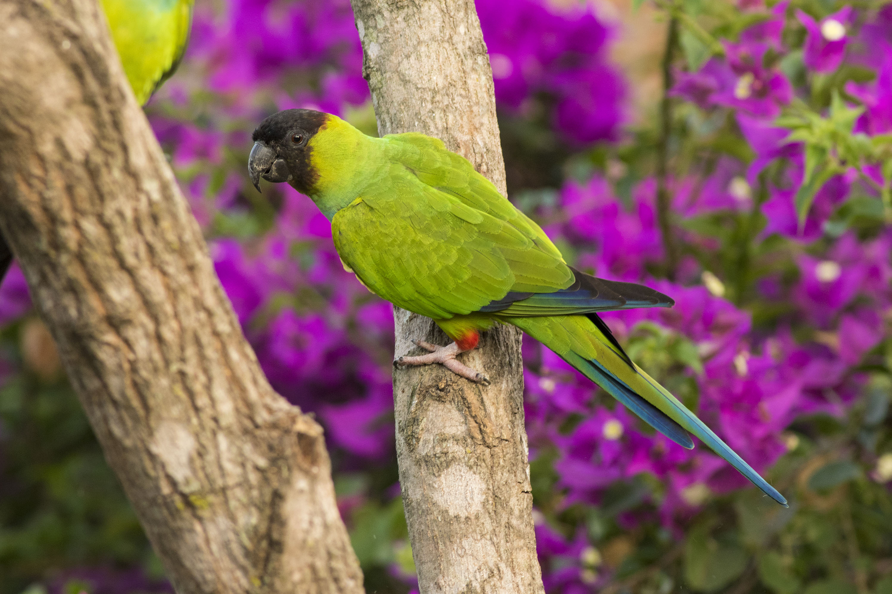 Nanday Parakeet (Aratinga nenday).